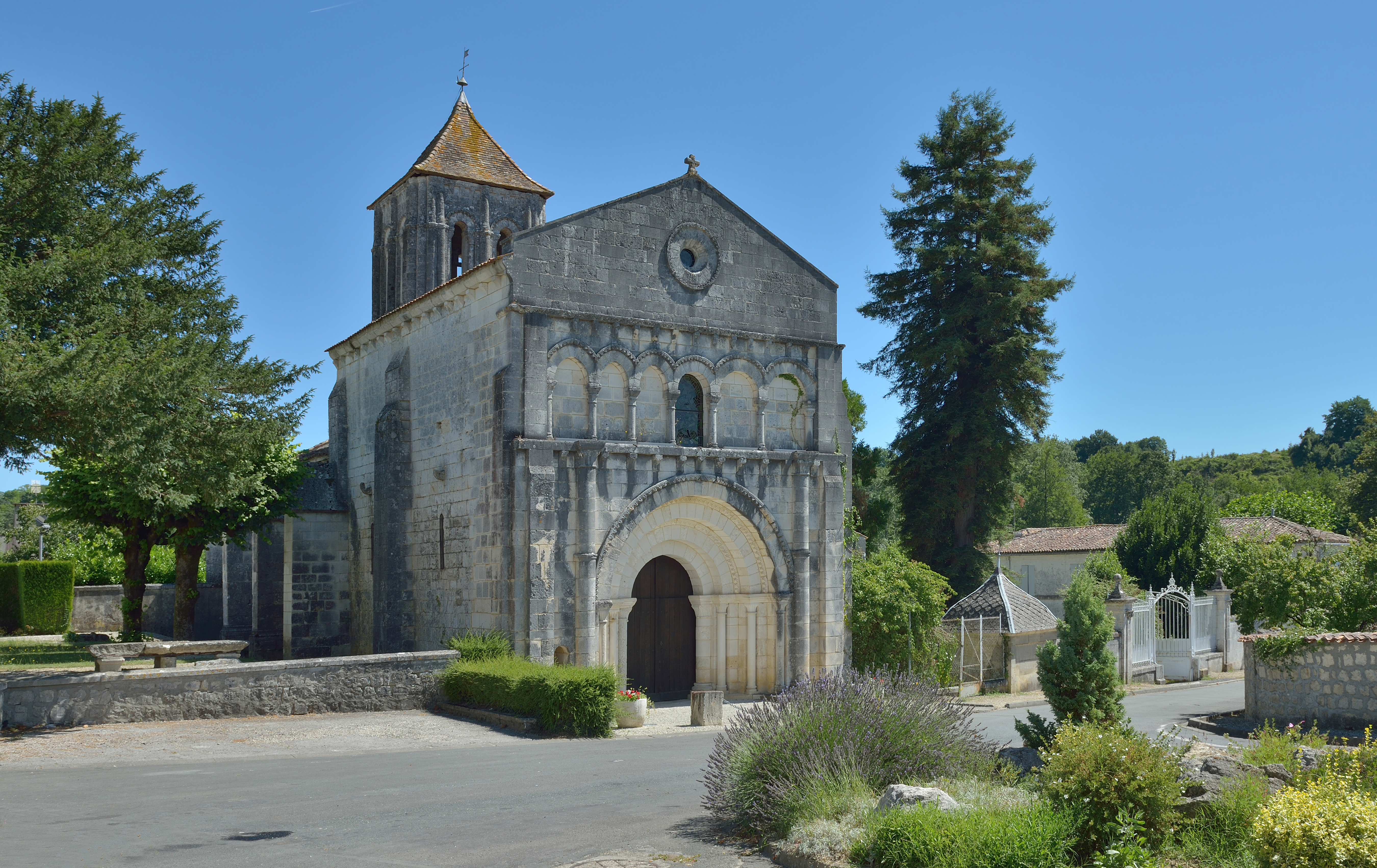 Saint-Césaire church in Saint-Césaire in France